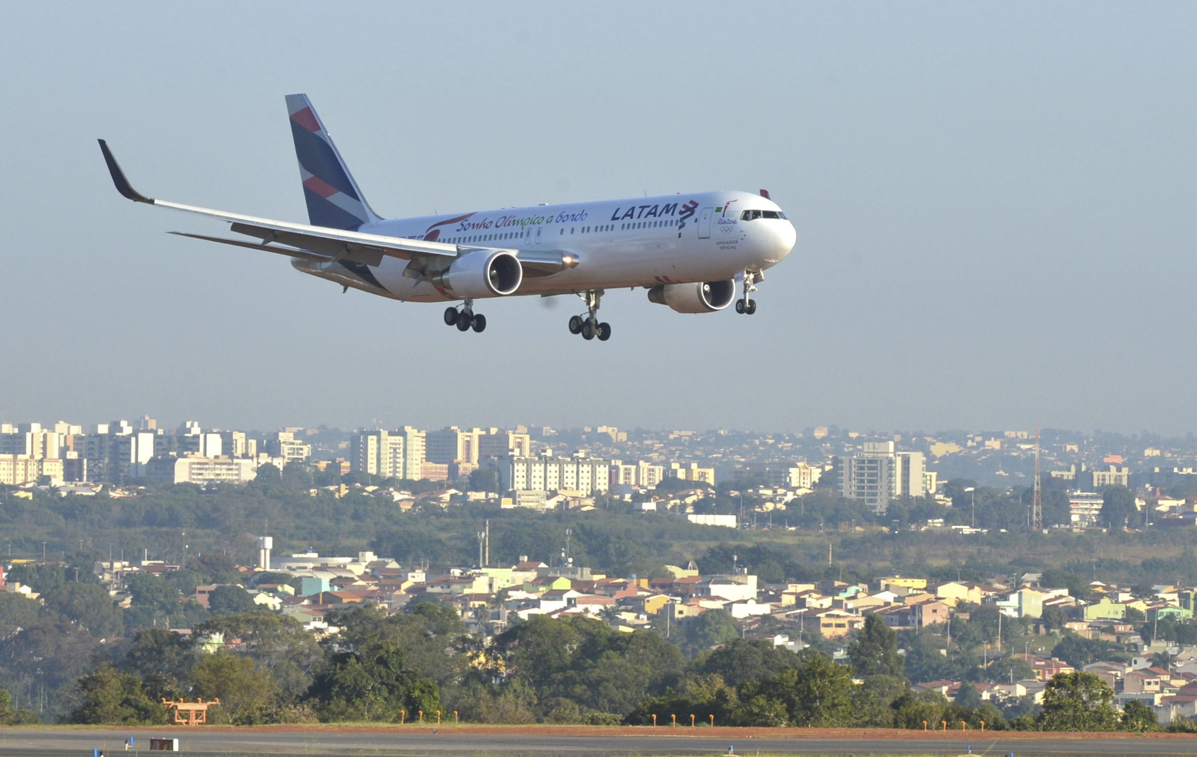 Brasília - Chega a Brasília o avião trazendo a lanterna que contém a Chama Olímpica (Antonio Cruz/Agência Brasil)